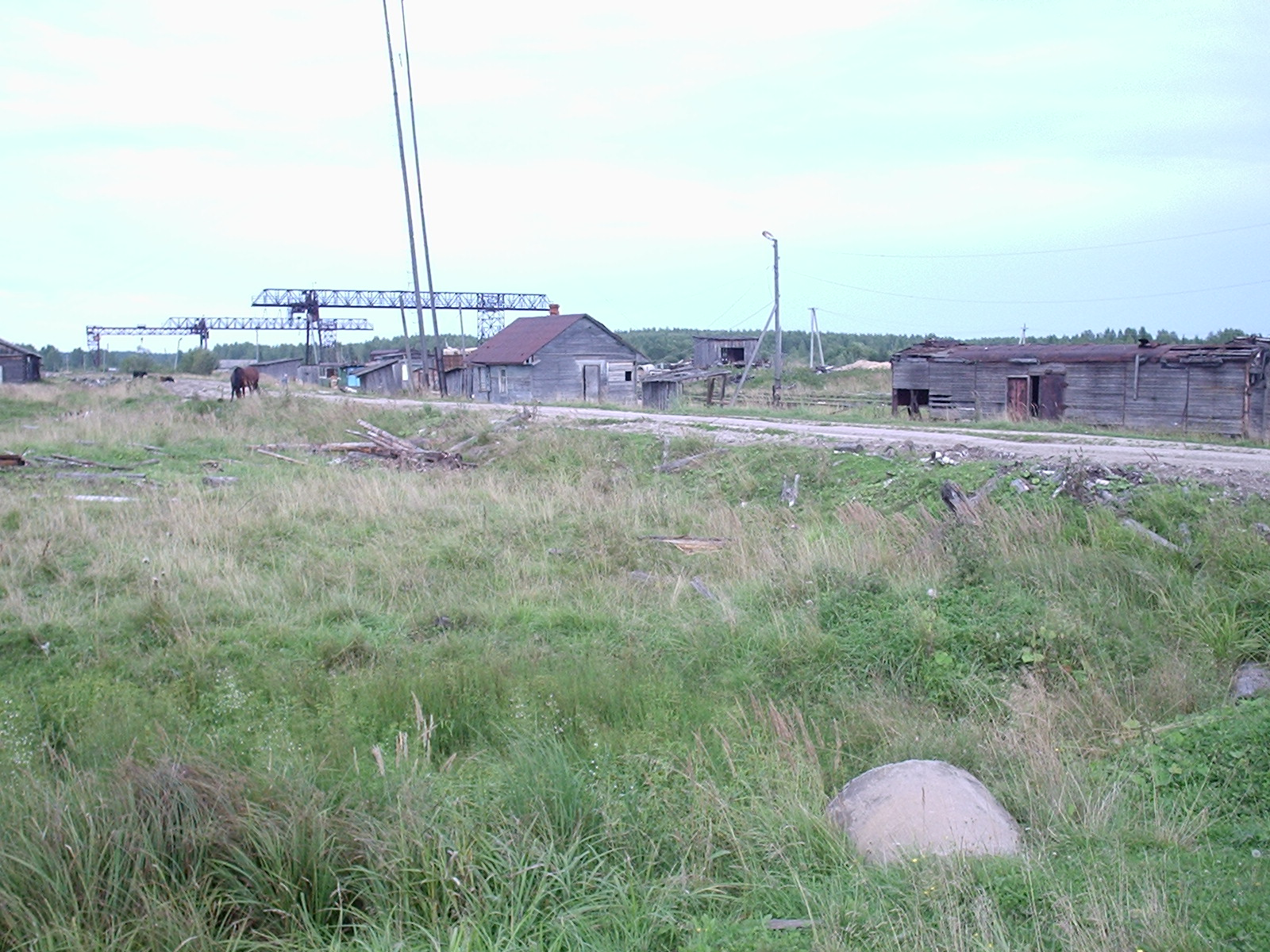 Kamenka, Gryazovetsky District, Vologda Oblast